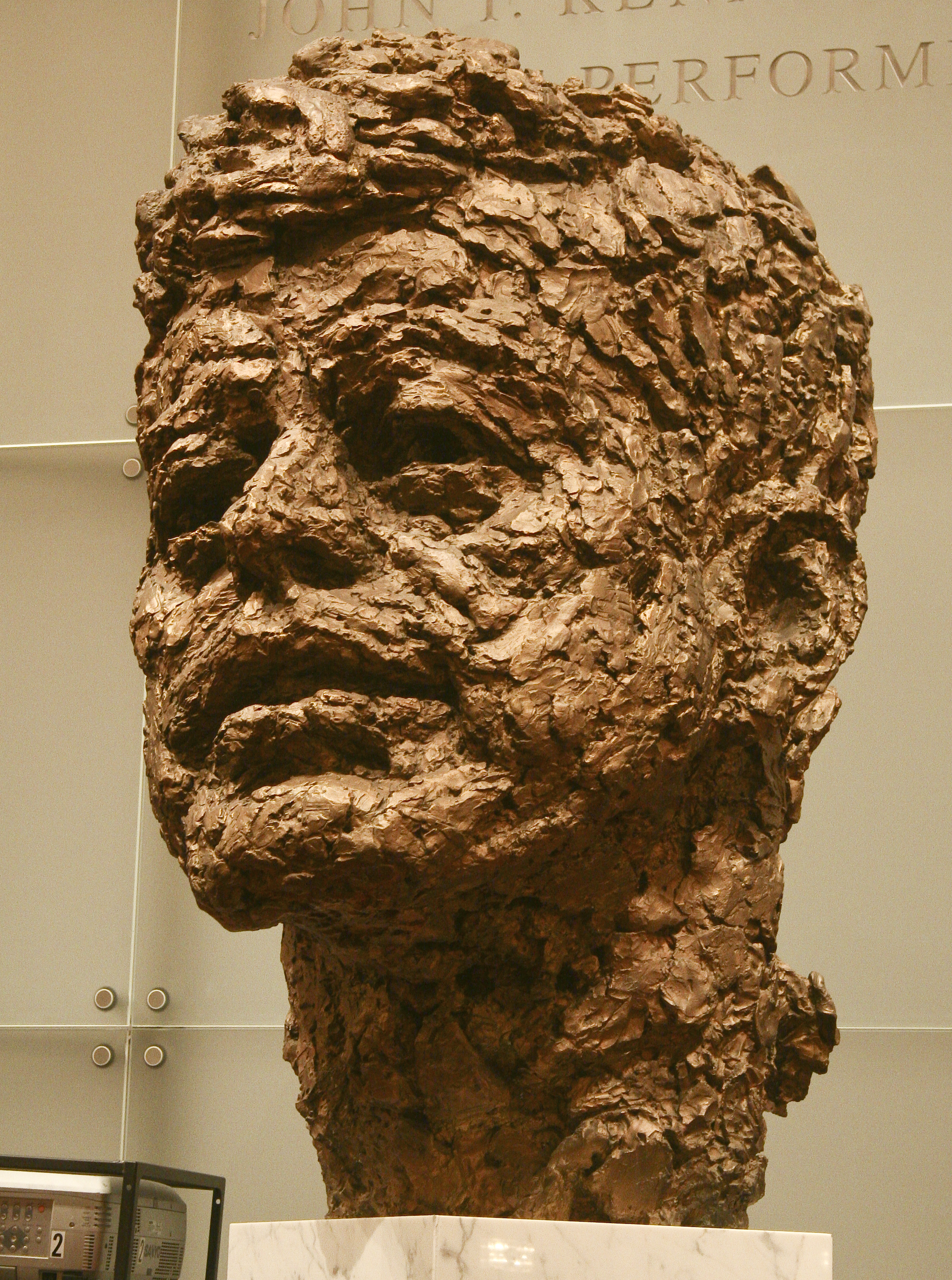 Bust of John F. Kennedy at "John F. Kennedy Center for the Performing Arts", Washington D.C., USA.